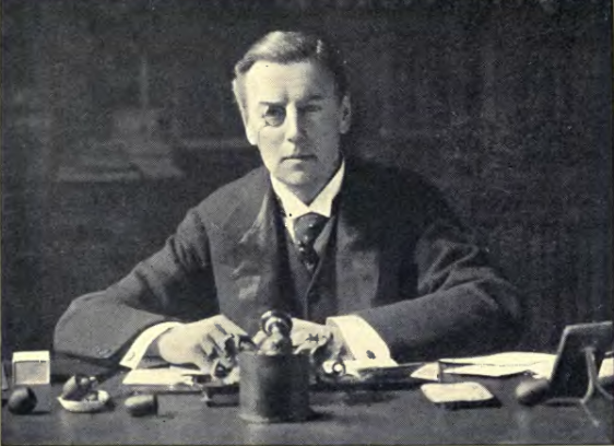 Joseph Chamberlian, British politician and businessman at his desk in the Colonial Office